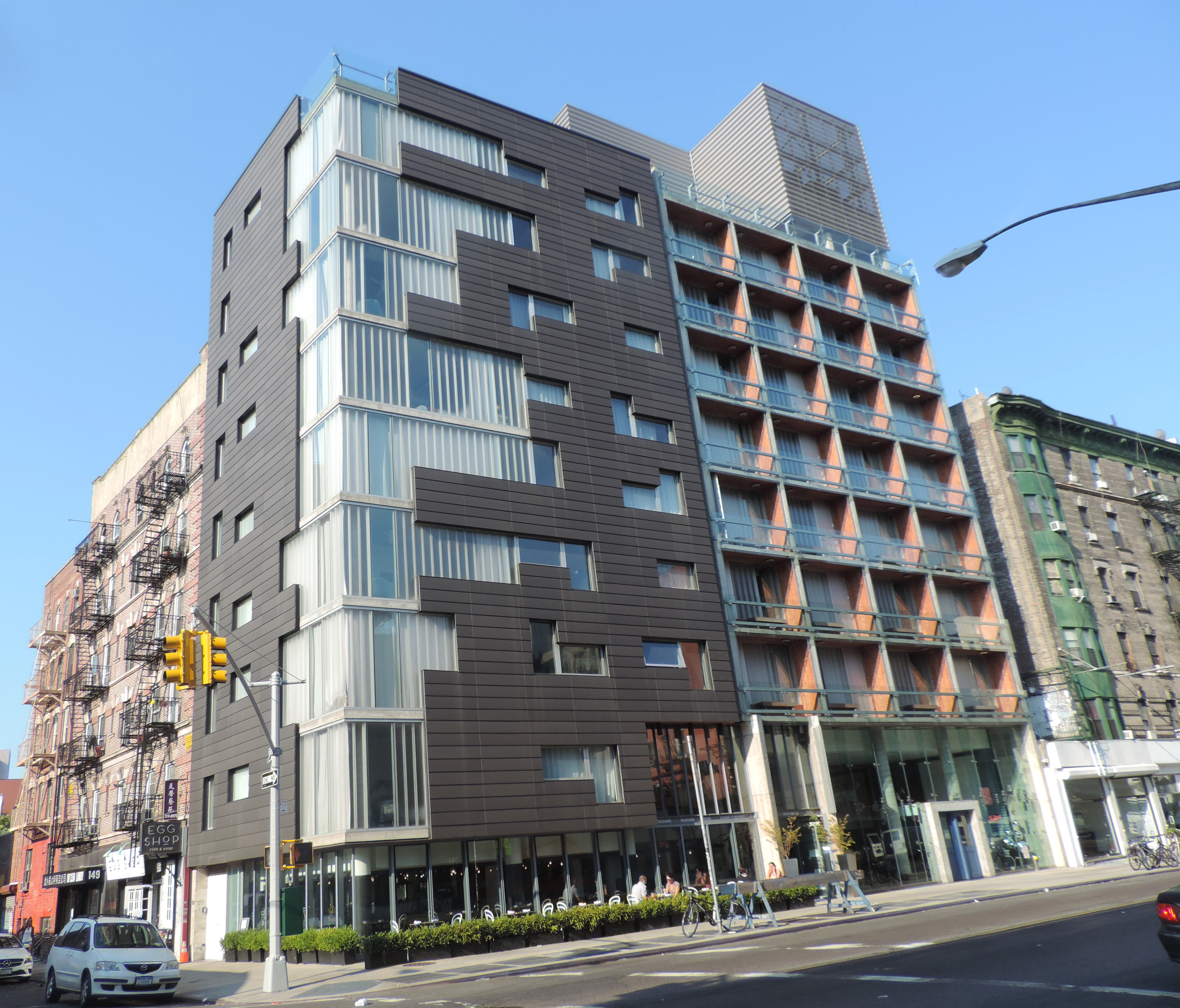 Looking west across Kenmare Street on a sunny summer morning.